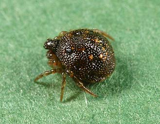 male Phoroncidia ryukyuensis from Okinawa.